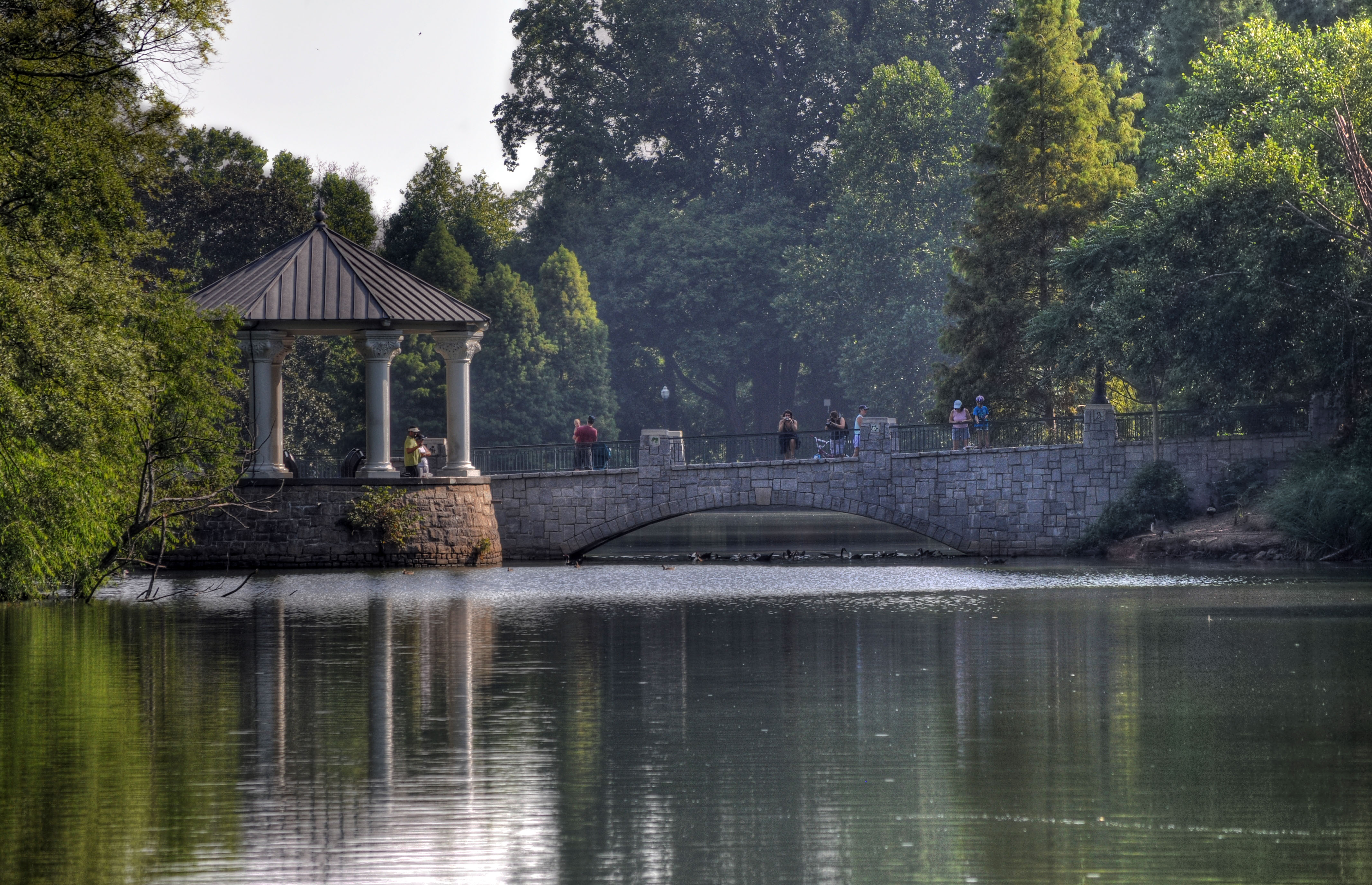 The bridge across Piedmont Park, Atlanta